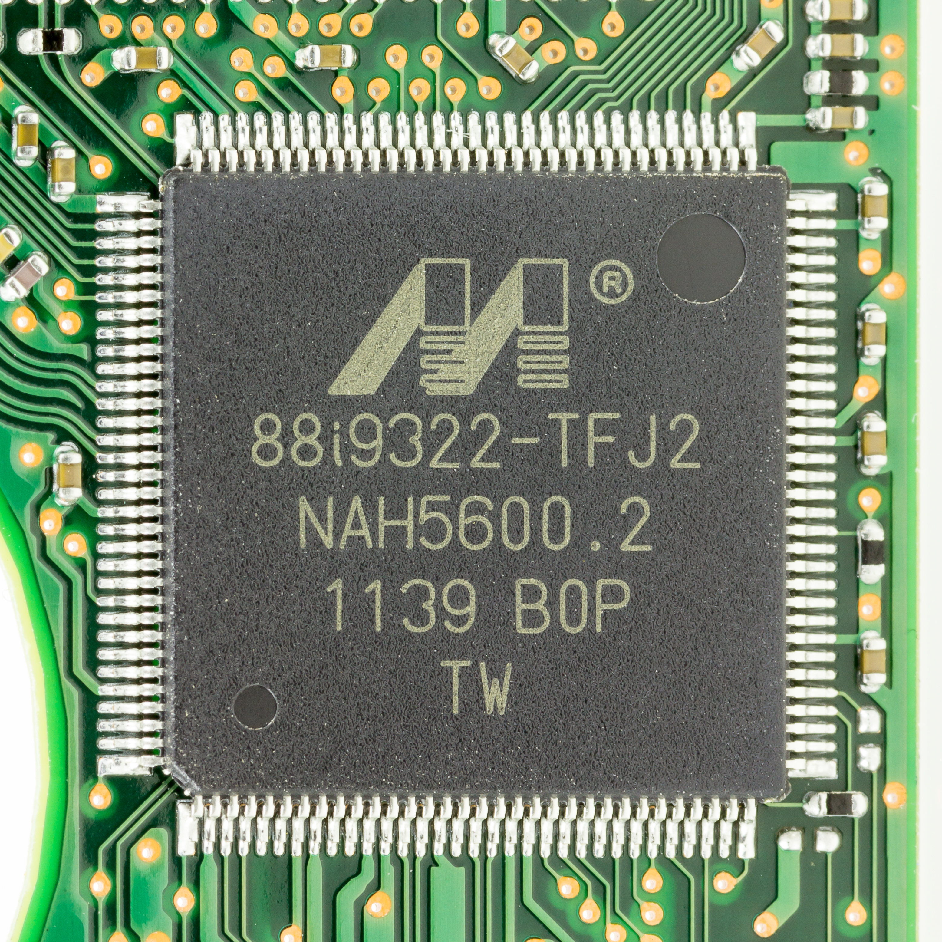 Seagate ST160LM003 Momentus - Marvell 88i9322-TFJ2